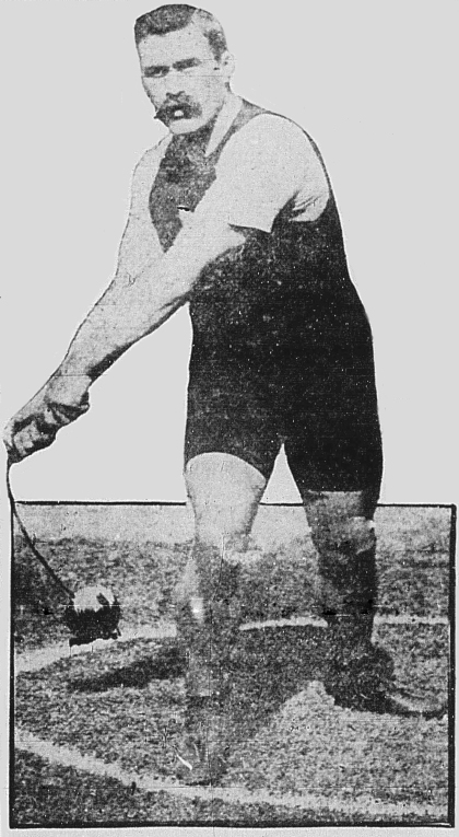 James S. Mitchel throwing 16 pound hammer, 1906.